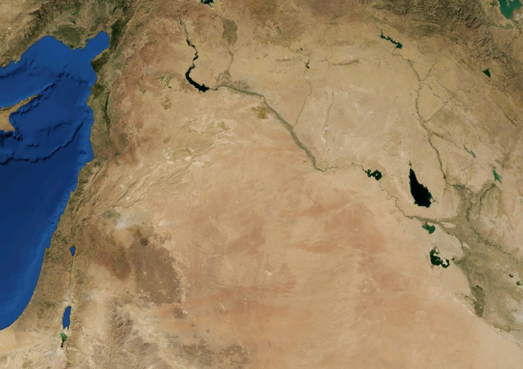 NASA World Wind 1.4 used.